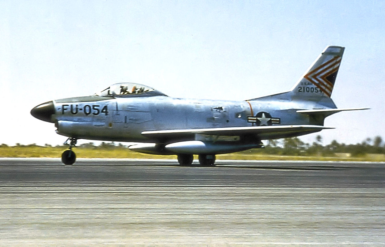 431st Fighter-Interceptor Squadron - North American F-86D-50-NA Sabre 52-10054